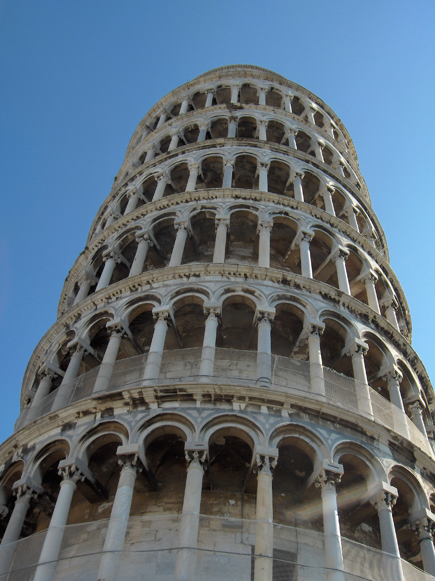 The Leaning Tower of Pisa, Italy Own photo - photo taken by Georges Jansoone on 10 october 2005